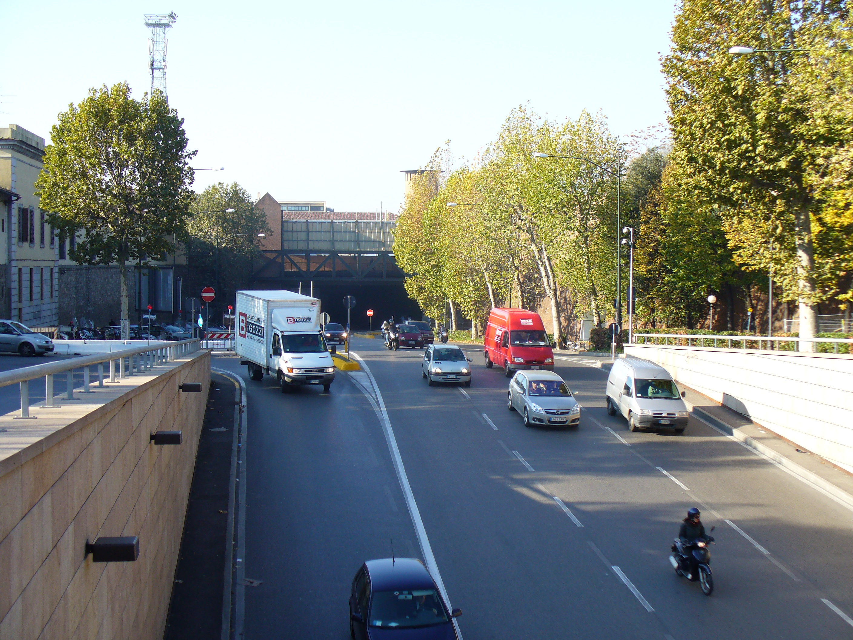 viali di circonvallazione